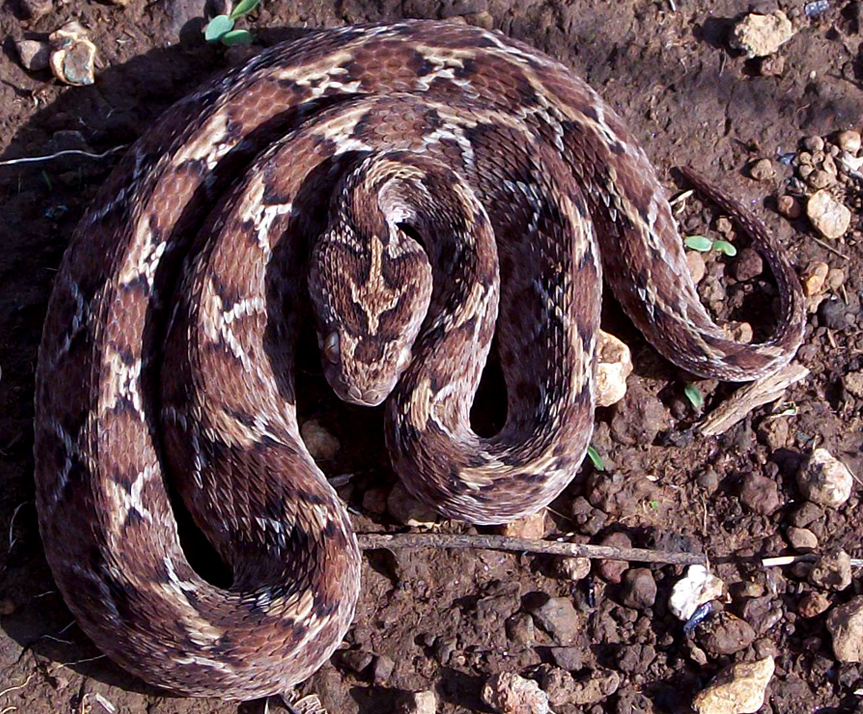 Saw Scaled Viper In Mangaon, MH, India.